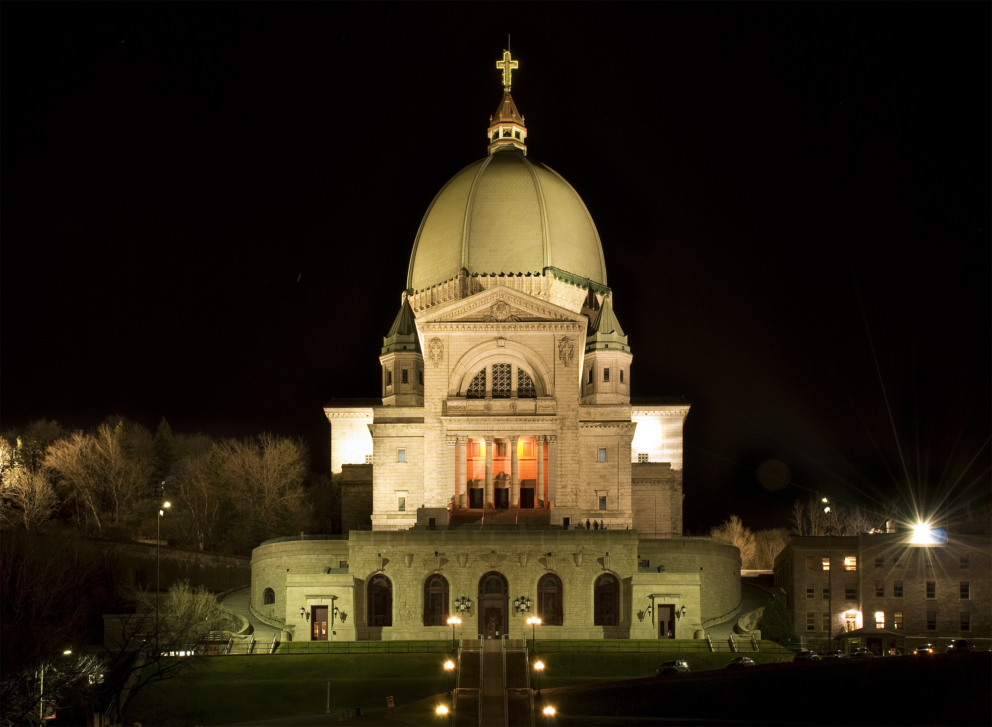 Saint Joseph's Oratory in Montreal, Quebec, Canada.